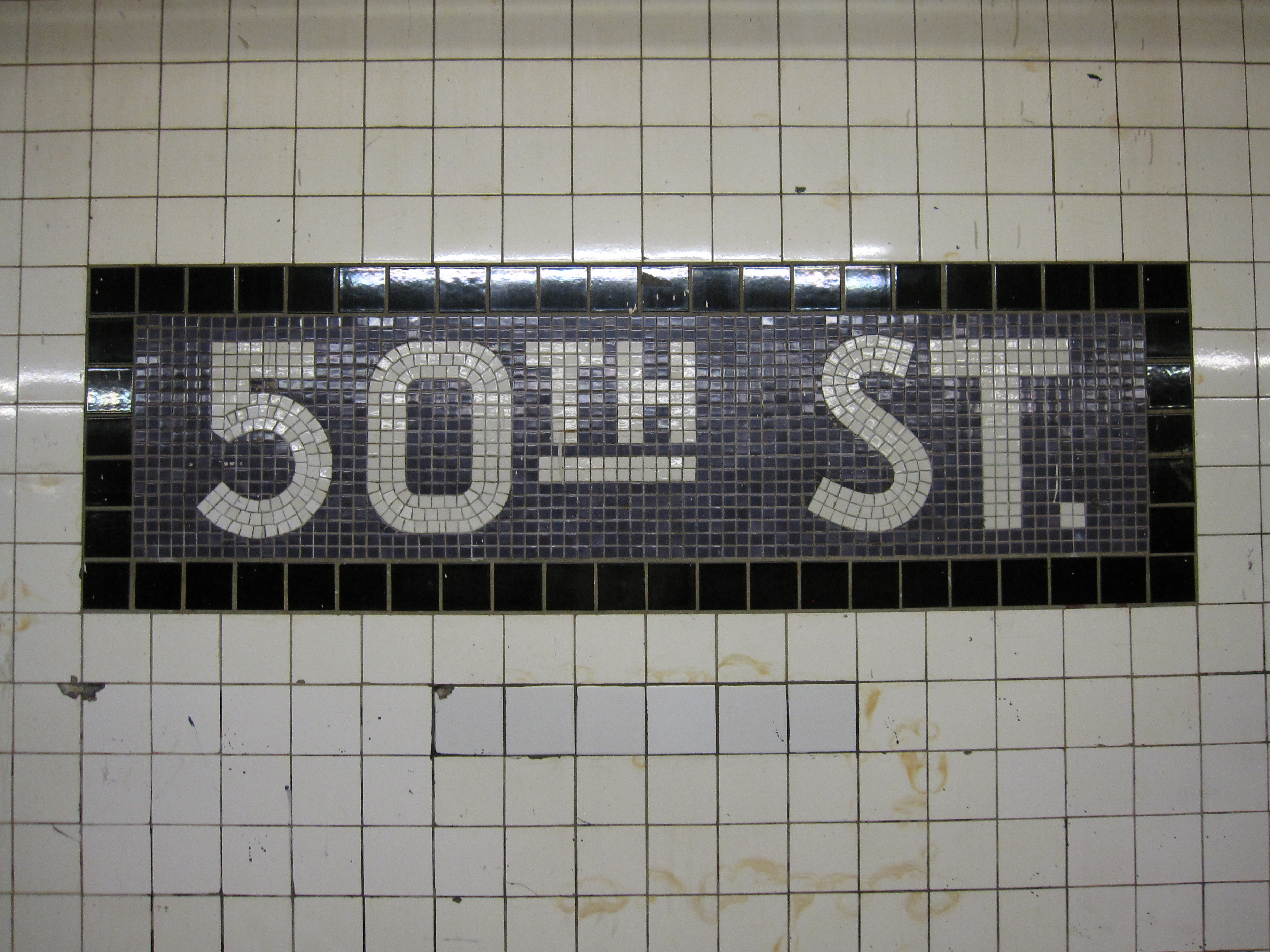 Downtown platform 50th Street (IND Eighth Avenue Line)